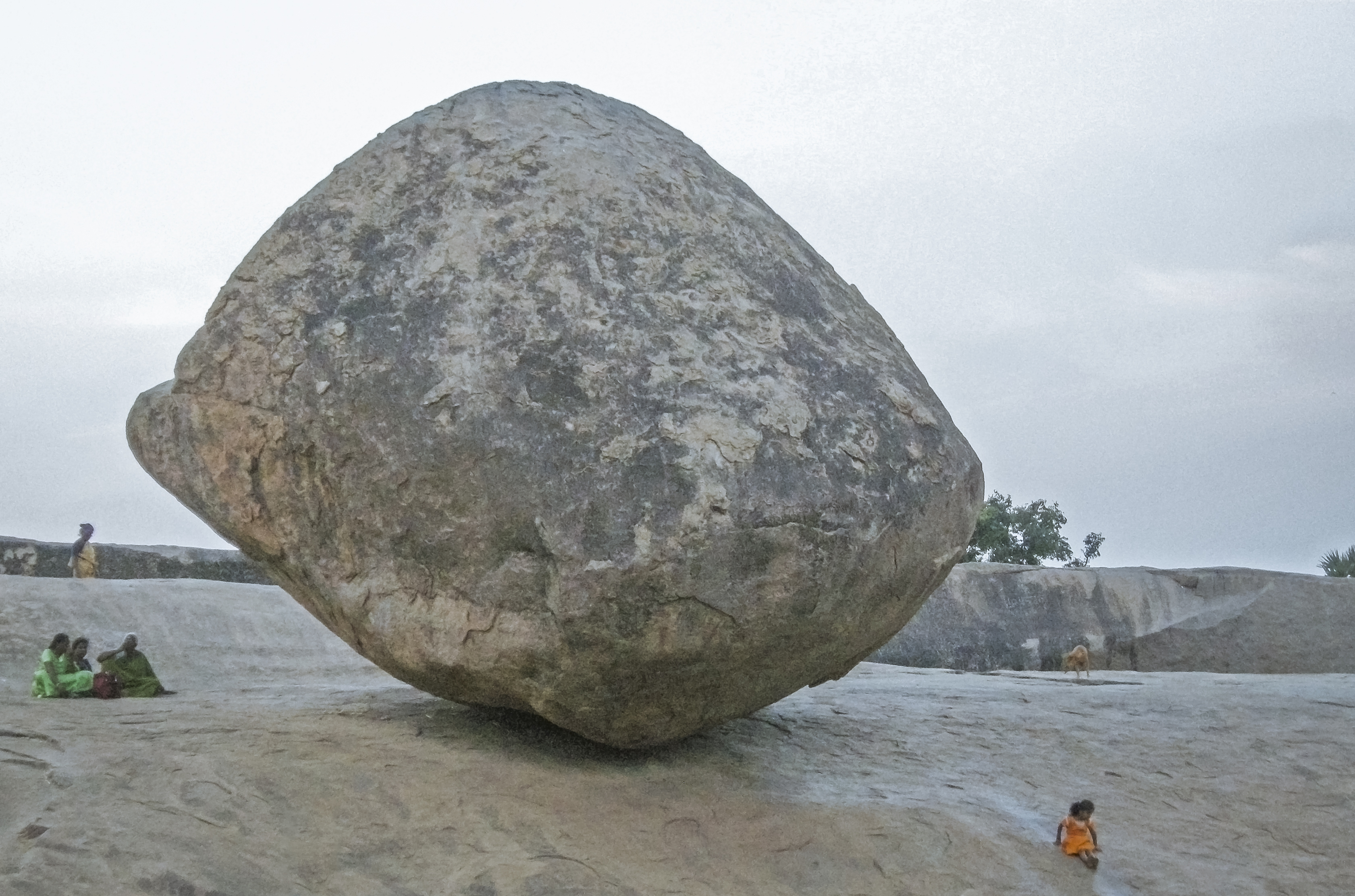 Krishna's Butterball in Mamallapuram, Tamil Nadu, India